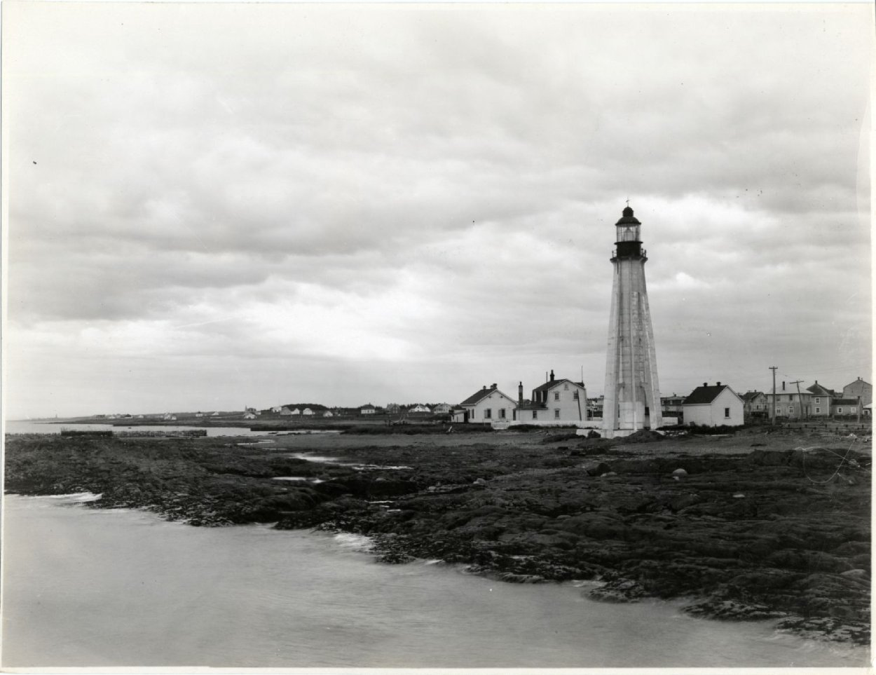 Pointe-au-Père lighthouse around 1930